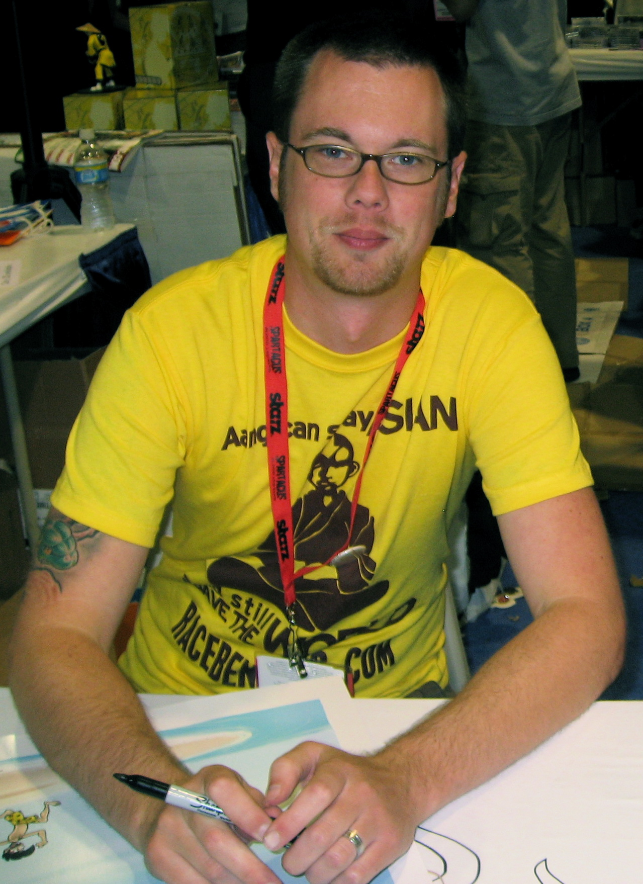 Mike Krahulik, co-creator of Penny Arcade. Taken at ComiCon 2009